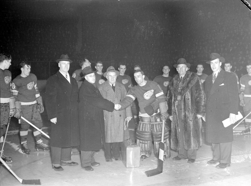 The Notary Beauchesne from Asbestos presents a suitcase to Connie Dion, goalkeeper of the Detroit Red Wings. Red Wings players and dignitaries are also on the ice. This presentation was made during a hockey game between the Montreal Canadiens and the Detroit Red Wings.